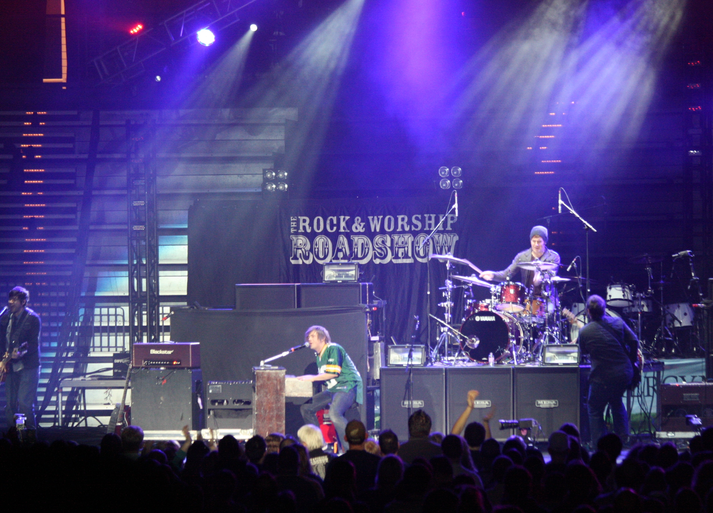 Christian rock music group The Afters performing on the Rock and Worship Road Show in the Resch Center in Green Bay, Wisconsin.